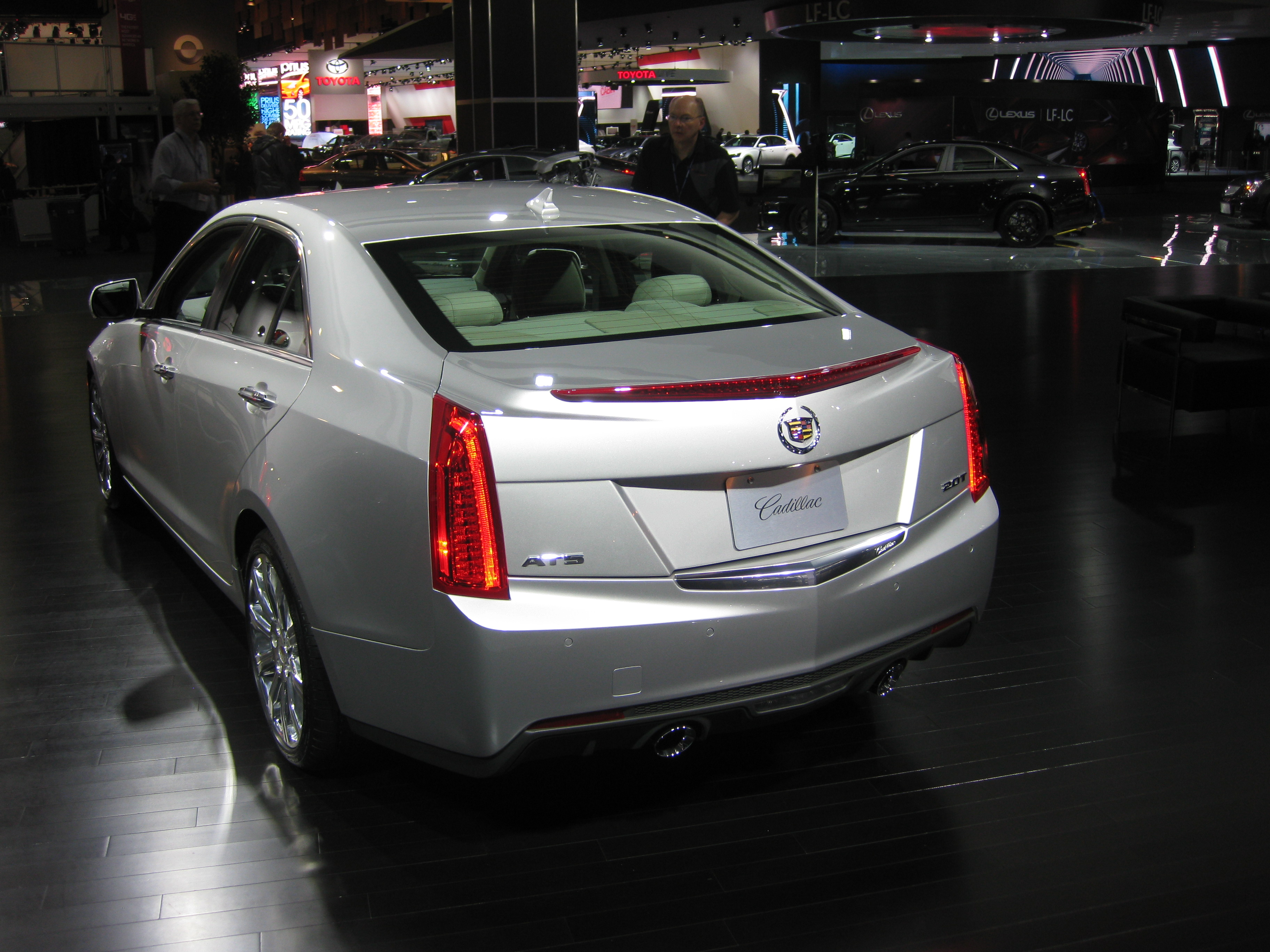 For more info and images please check